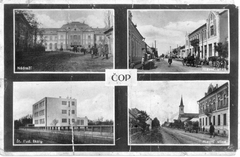 Chop 1920-35